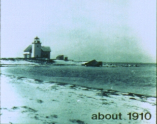 Shore of Billingsgate Island, around 1910